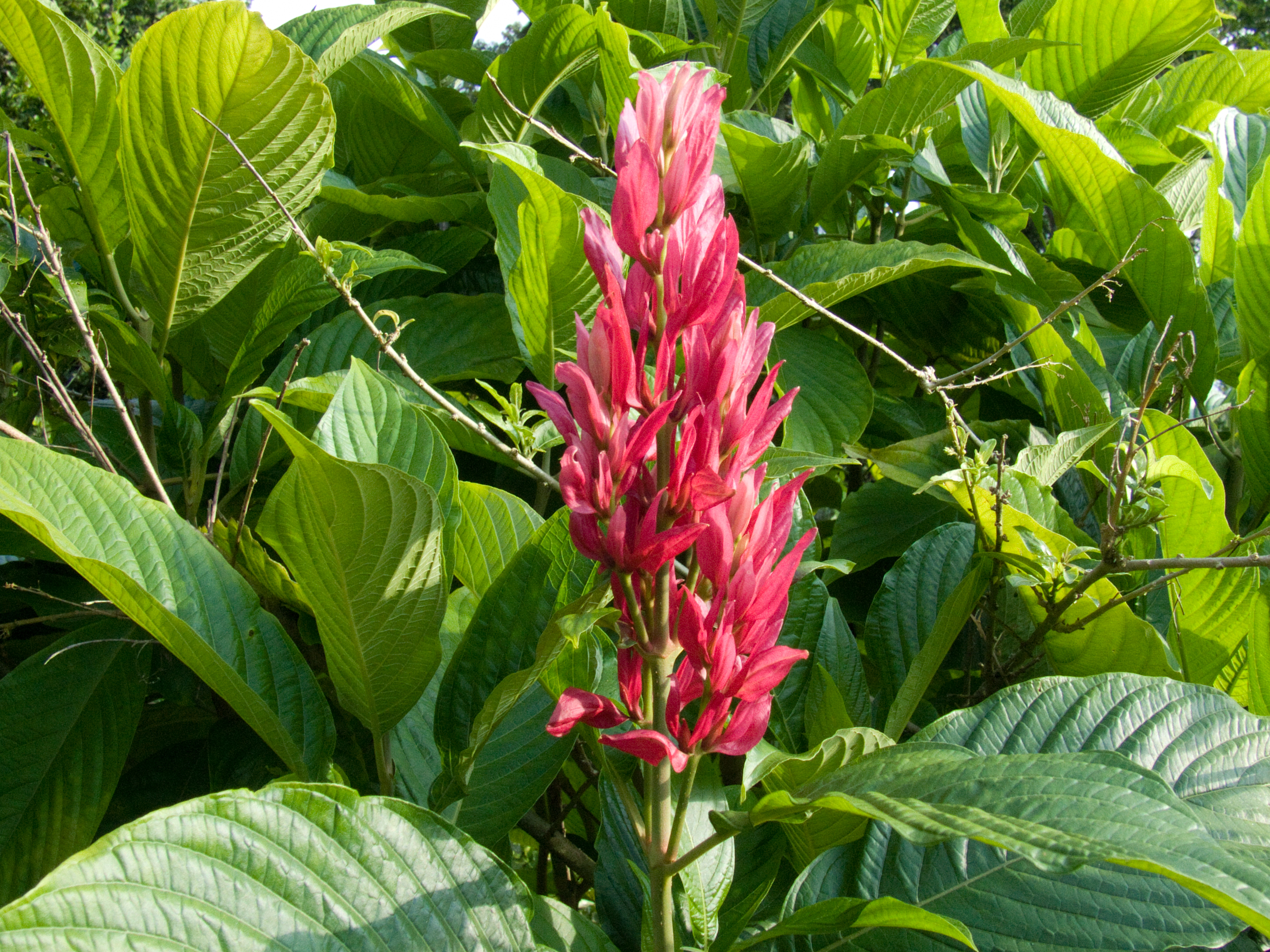 The following is the author's description of the photograph quoted directly from the photograph's Flickr page." "